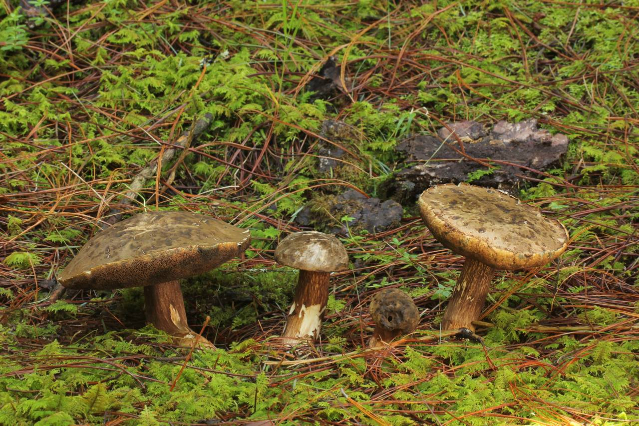 Under Abies. From Nevado de Toluca, Mexico, Mexico.